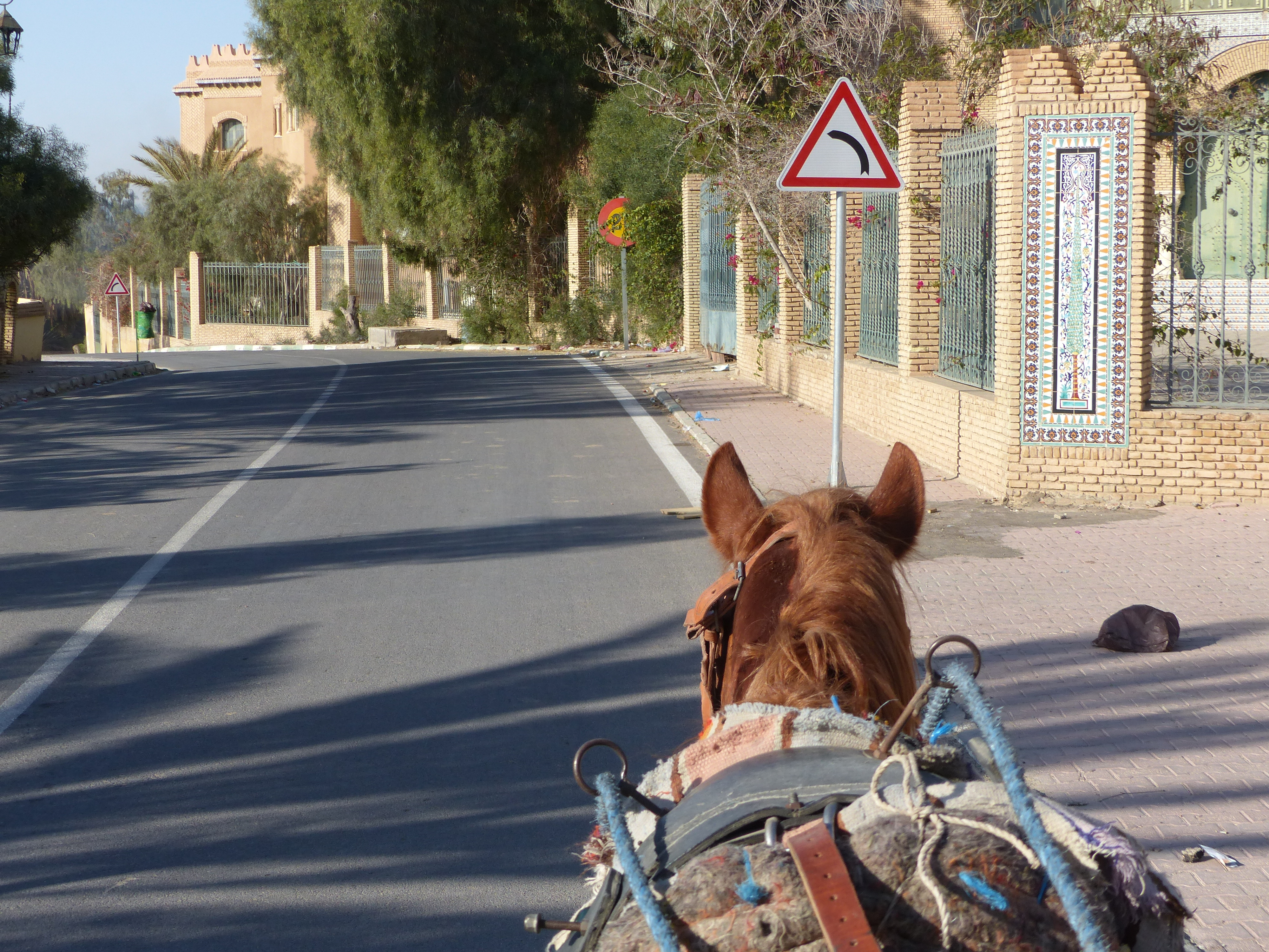 This is an image with the theme "Africa on the Move or Transport" from: Tunisia